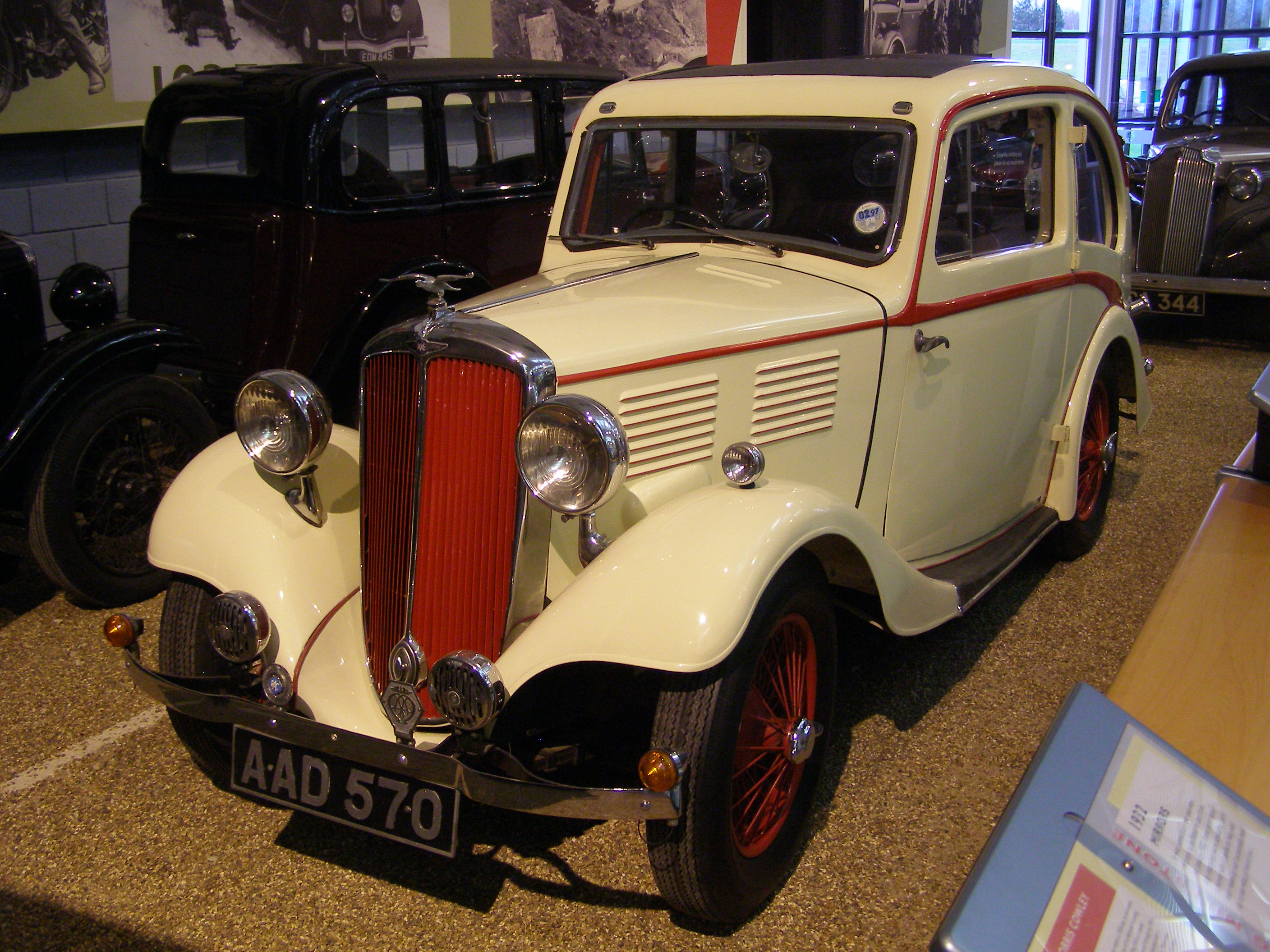 A 1934 Standard 10/12 Speedline registration AAD 570 on display at the Heritage Motor Museum, Gaydon, England